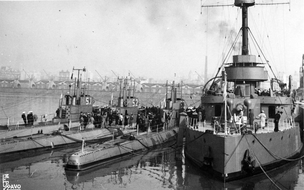 Argentine first submarines Santa Fe class and submarine tender Independencia